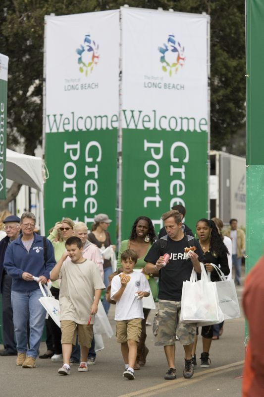 Entrance to Port of Long Beach's Green Port Festival attracts thousands of residents from Southern California every year